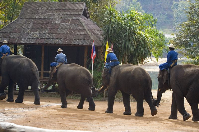 An elephant train at the Thai Elephant Conservation Centre, Lampang (ลำปาง), Thailand